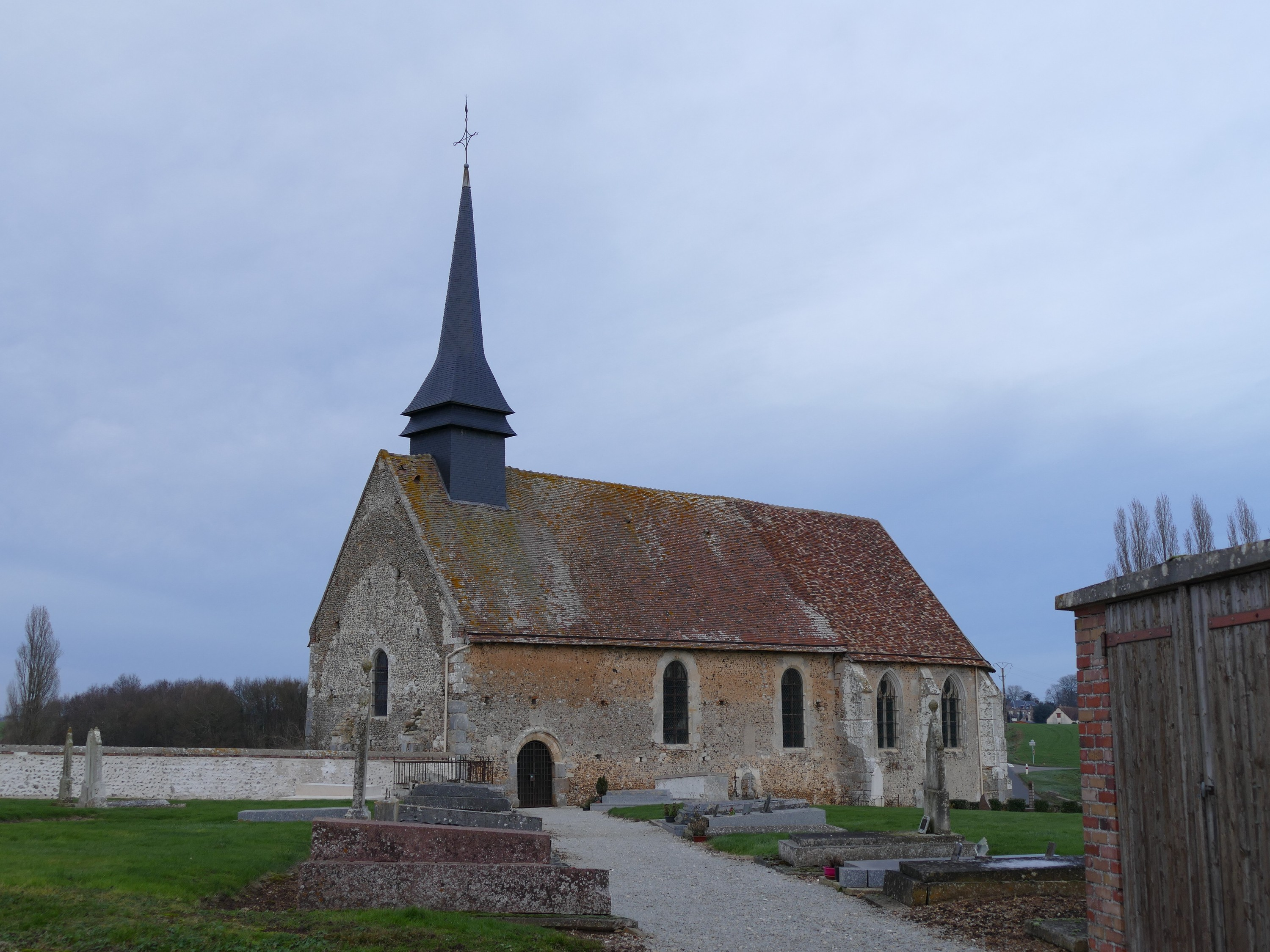 Saint-Peter's church in Courdemanche (Eure, Normandie, France).